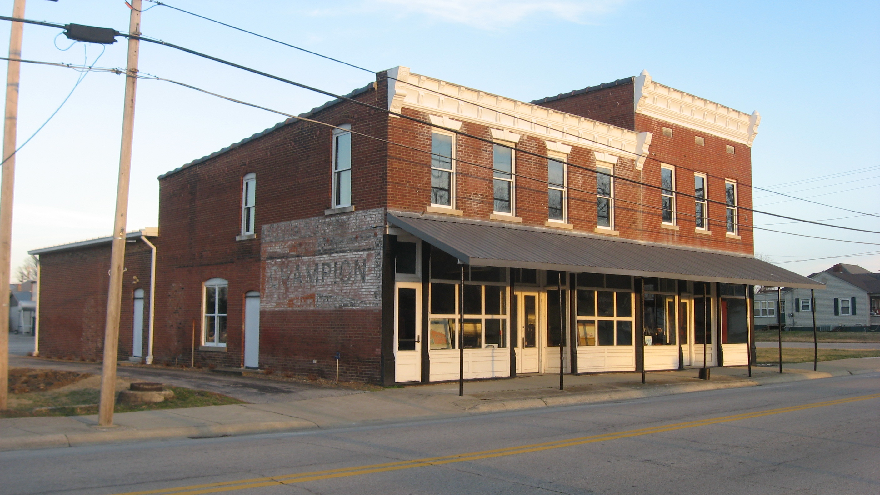 Front and northern side of the J.B. Taylor and Son Feed Store (left) and front of the Lewisport Masonic Lodge (right), located at 307 and an unspecified address on Fourth Street (Kentucky Route 657) in Lewisport, Kentucky, United States. They are listed on the National Register of Historic Places.